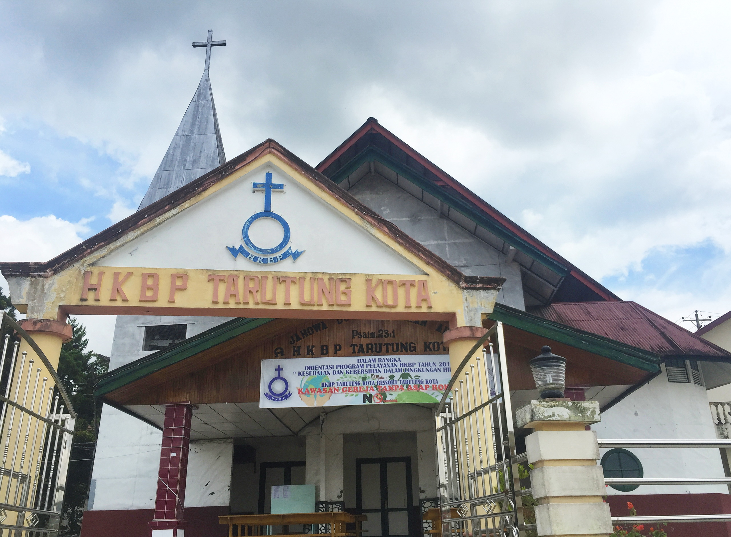 HKBP Tarutung Kota, Church in Tarutung, North Tapanuli